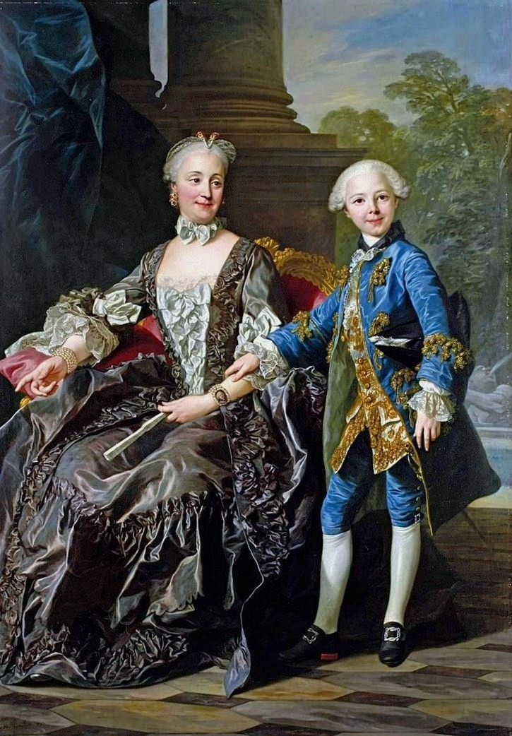 Louise-Honorine Crozat du Châtel, Duchesse de Choiseul-Amboise, Marquise de Stainville, avec son fils adoptif et neveu de son mari, Claude-Antoine-Gabriel de Choiseul-Beaupré, Comte de Choiseul (1760—1838)